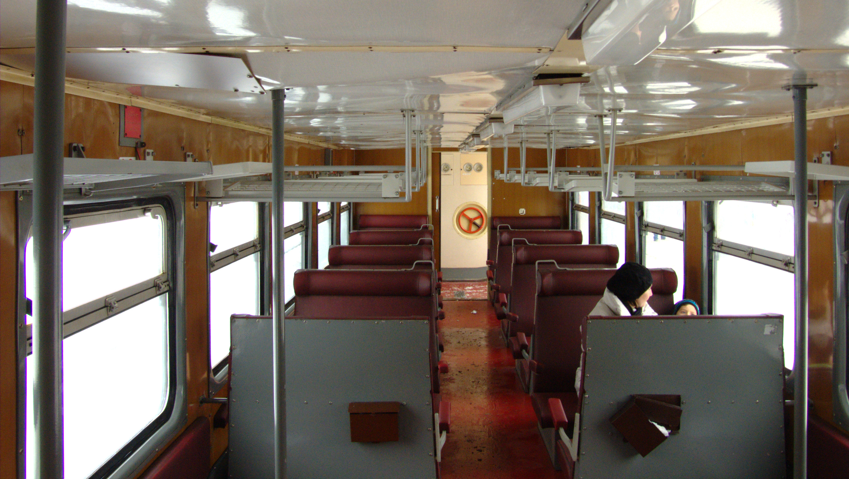 Inside of Bmto passenger car at Prague-Braník train station, CZ